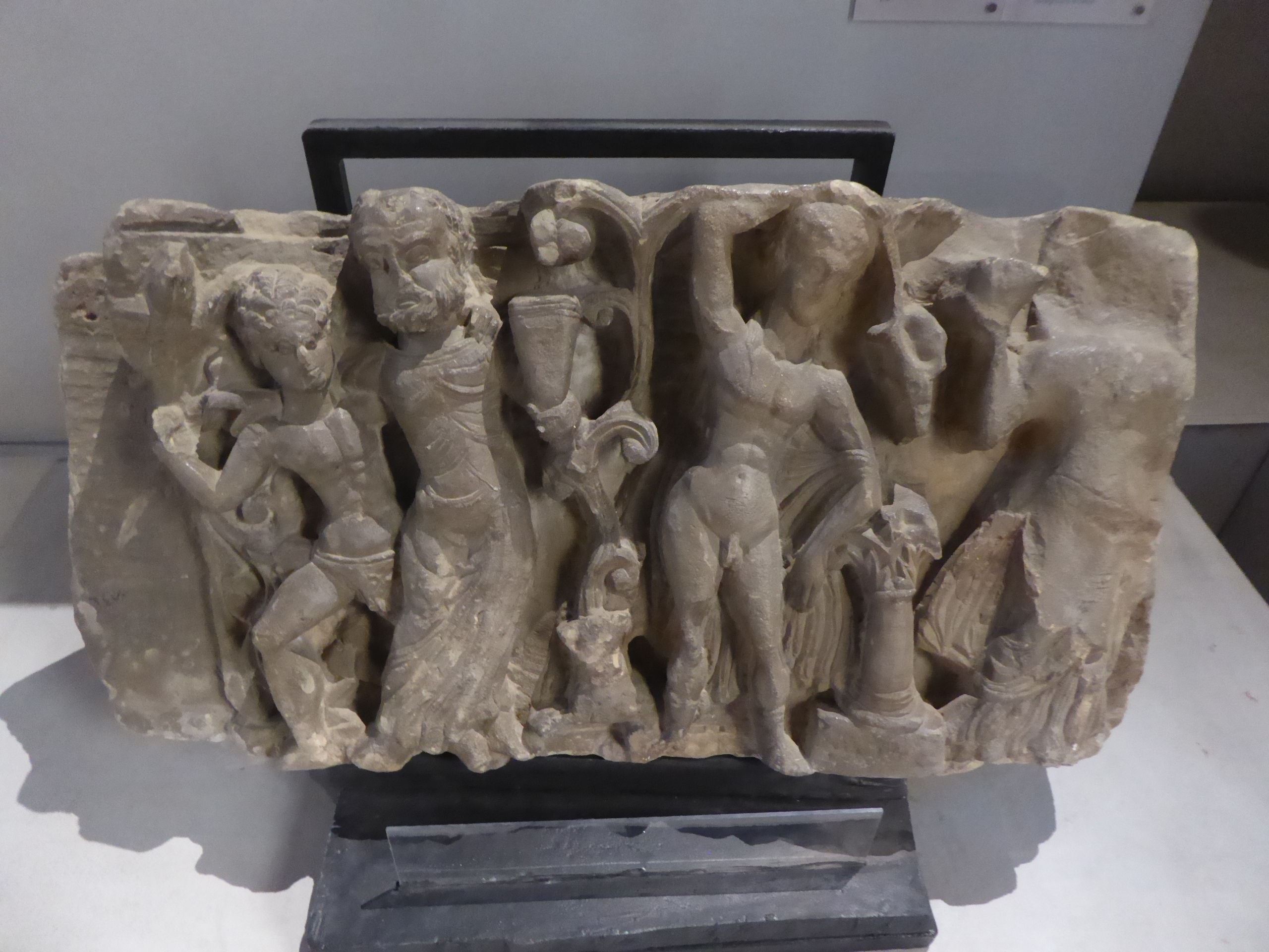 Figurative Capital The Coptic Museum was founded in 1908 and is the World's most extensive collection of Egyptian Christian art. Housed in a purpose built gallery on two floors (with architectural embellishments such as ceilings and glass that are rewarding in themselves) the exhibits span the centuries, telling the story of Coptic Orthodox Christianity in Egypt, one of the oldest Christian communities in the World which today comprises approximately ten percent of the country's population. The display begins with architectural sculpture from the late Roman period onwards through to frescoes from churches along with items in all media, including an especially fine collection of paintings and icons upstairs. It is one of the most important museums in Cairo and an essential place to visit in order to gain an understanding of Egypt's Christian past.